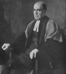 Hastings Rashdall (1858-1924)